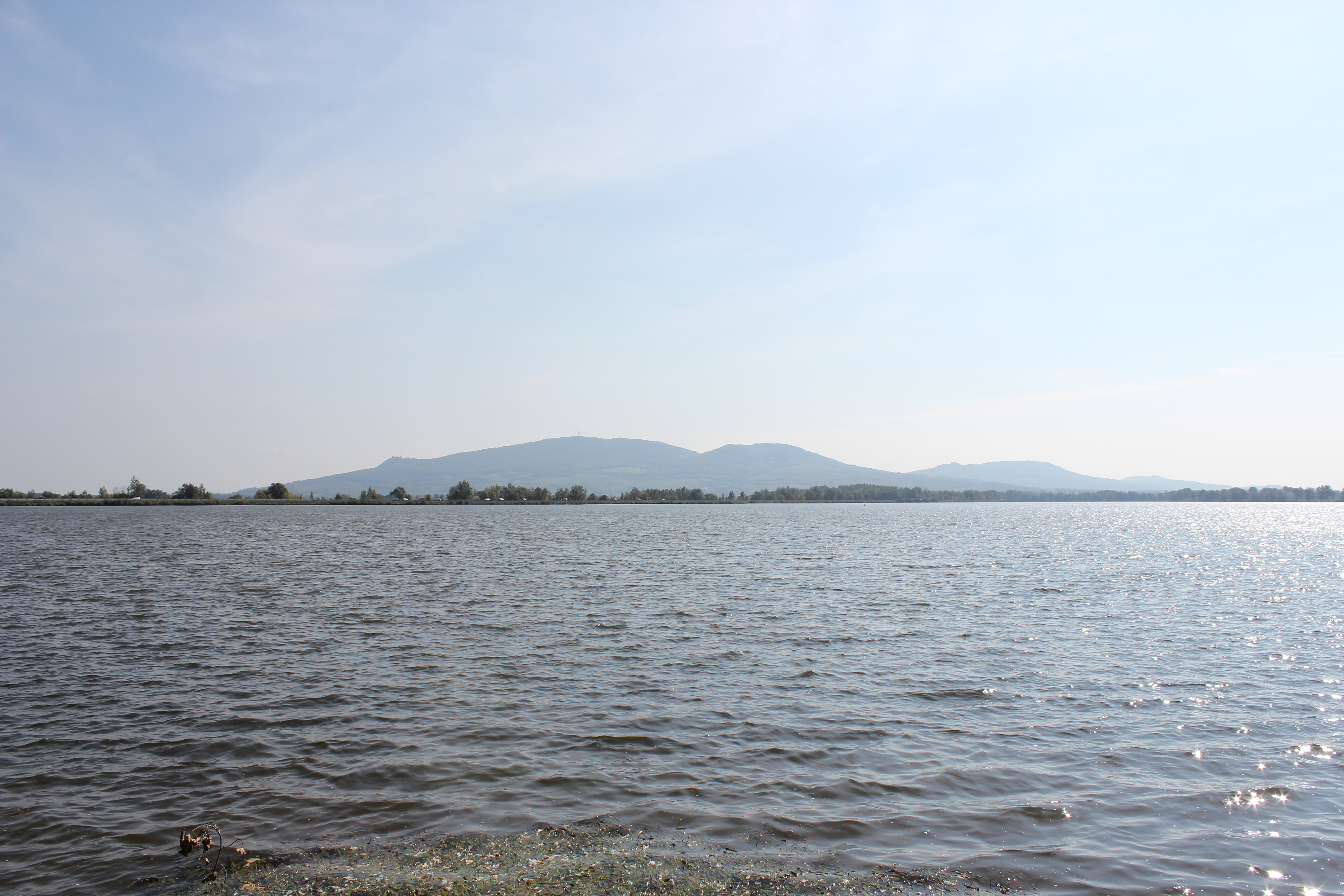 Palava hills - skyline behind Mušov reservoir